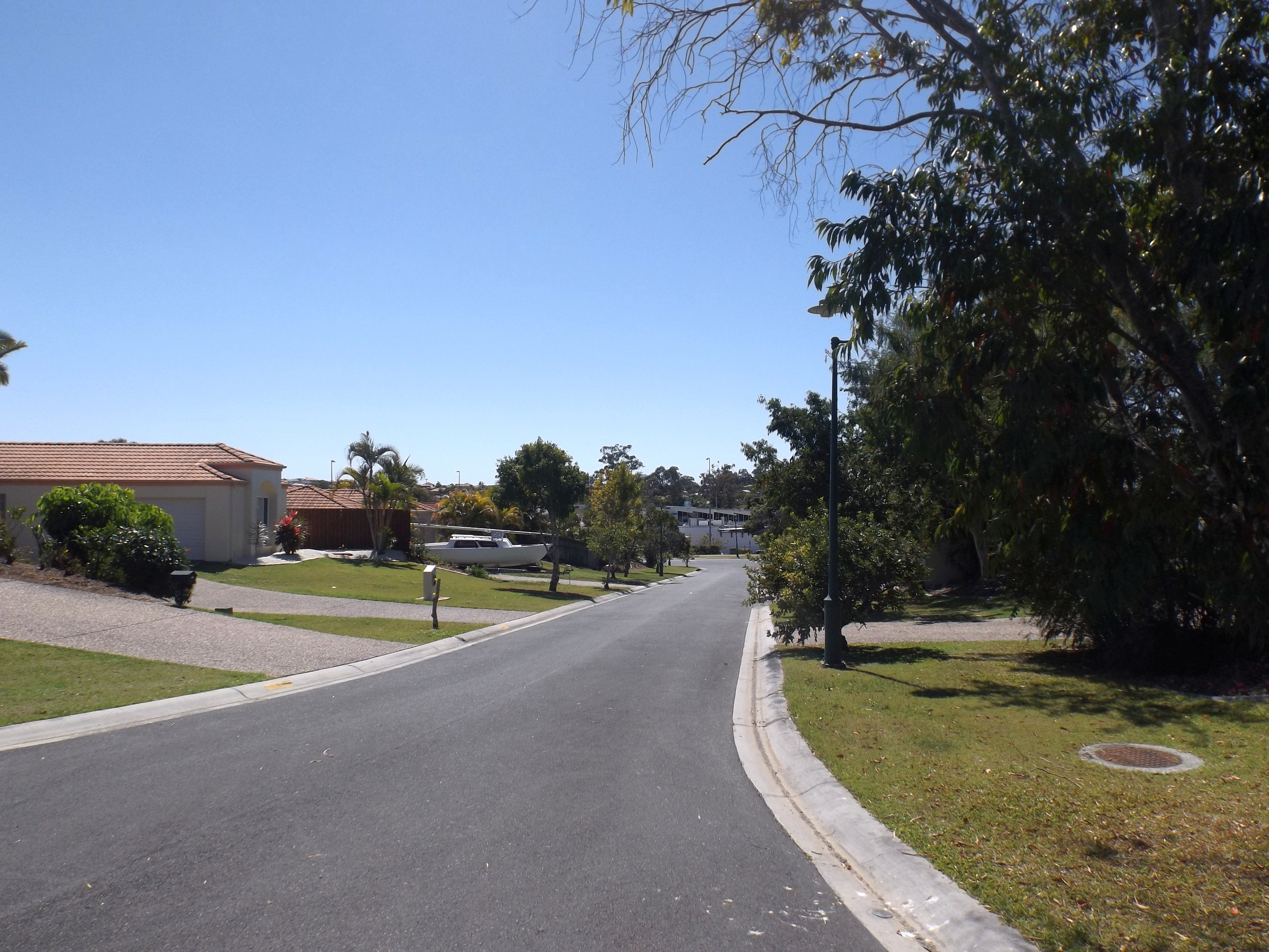 Photo of Trentham Court, Parkwood, Gold Coast City, Queensland, Australia.